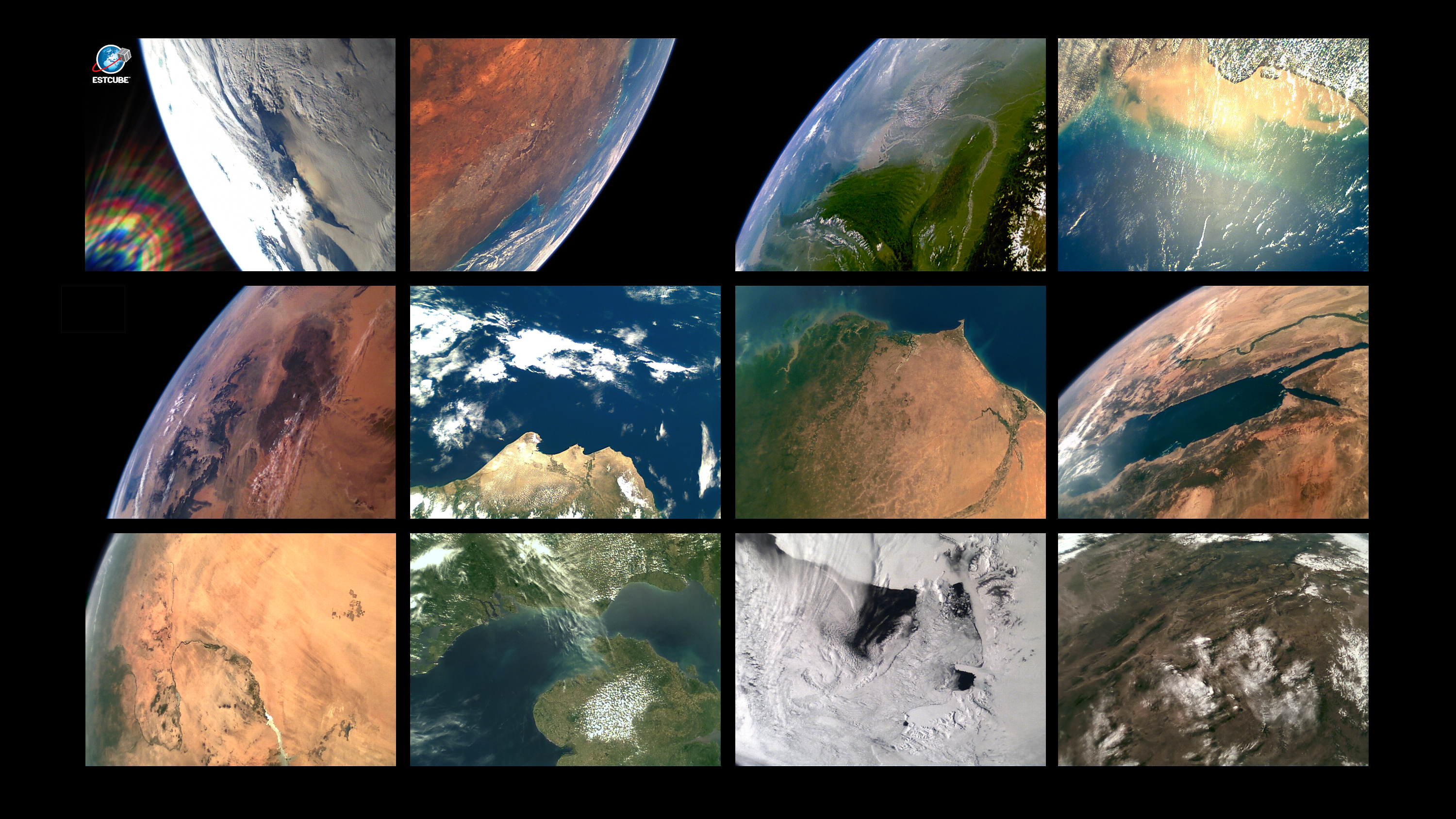 Compilation of photos taken by Estonian first satellite ESTCube-1 from 2013 to 2015. Showing the various colours of Earth. Starting from top left and in chronological order: Arctic; Australia; Brazil; Myanmar and Bangladesh; Algeria; Peru; Mauritania and Senegal; Red Sea; Sudan; English Channel; Antarctica; Mongolia and China. Every single image took almost a day to download, because it is 10-bit uncompressed and about 380 KB in size and has 640x480 resolution. 1 pixel is approximately 1-2 km on the ground.